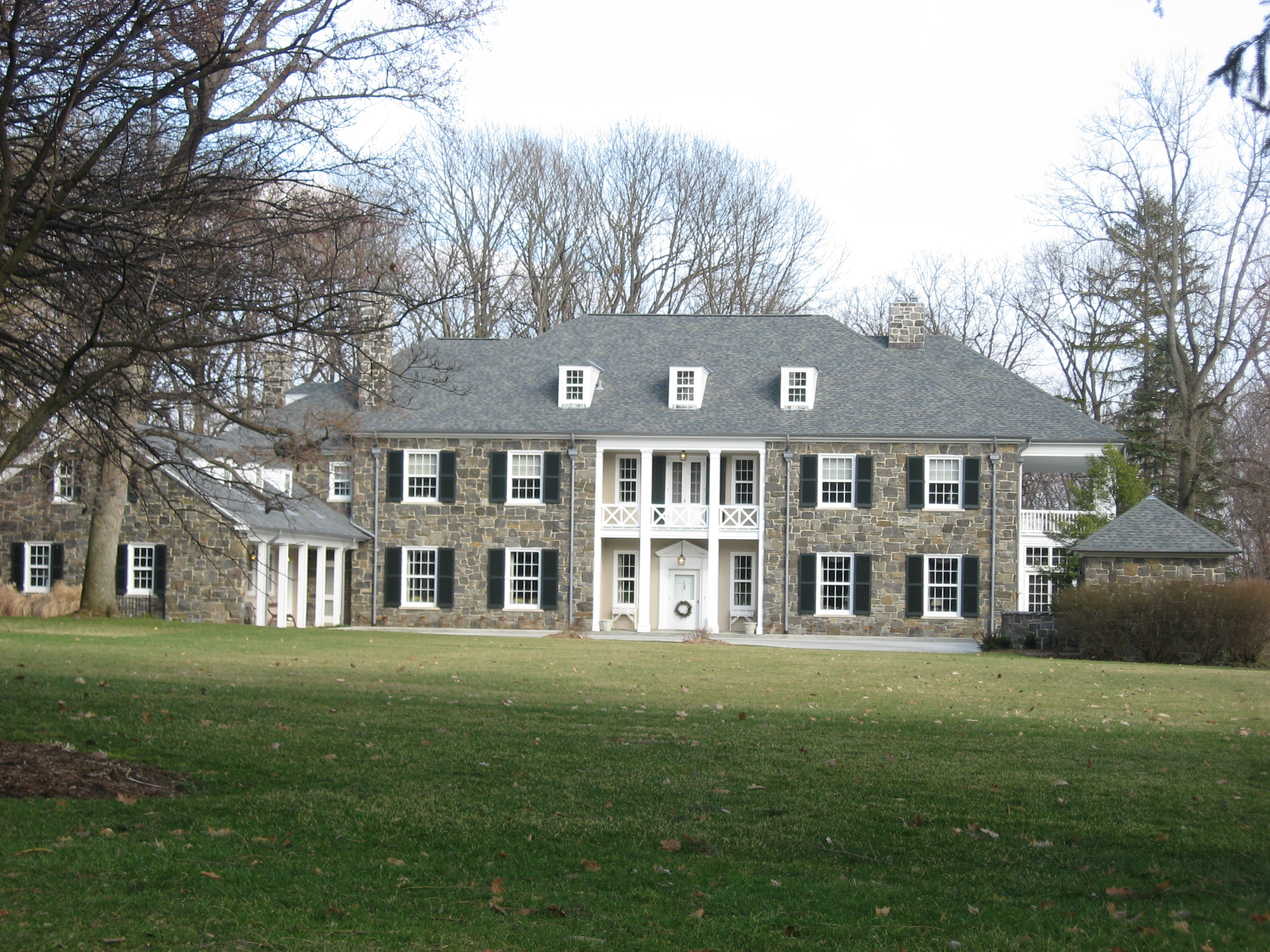 Front of a house on Sunset Lane in Crows Nest, Indiana, United States. This house is part of the Town of Crows Nest Historic District, a historic district that is listed on the National Register of Historic Places.